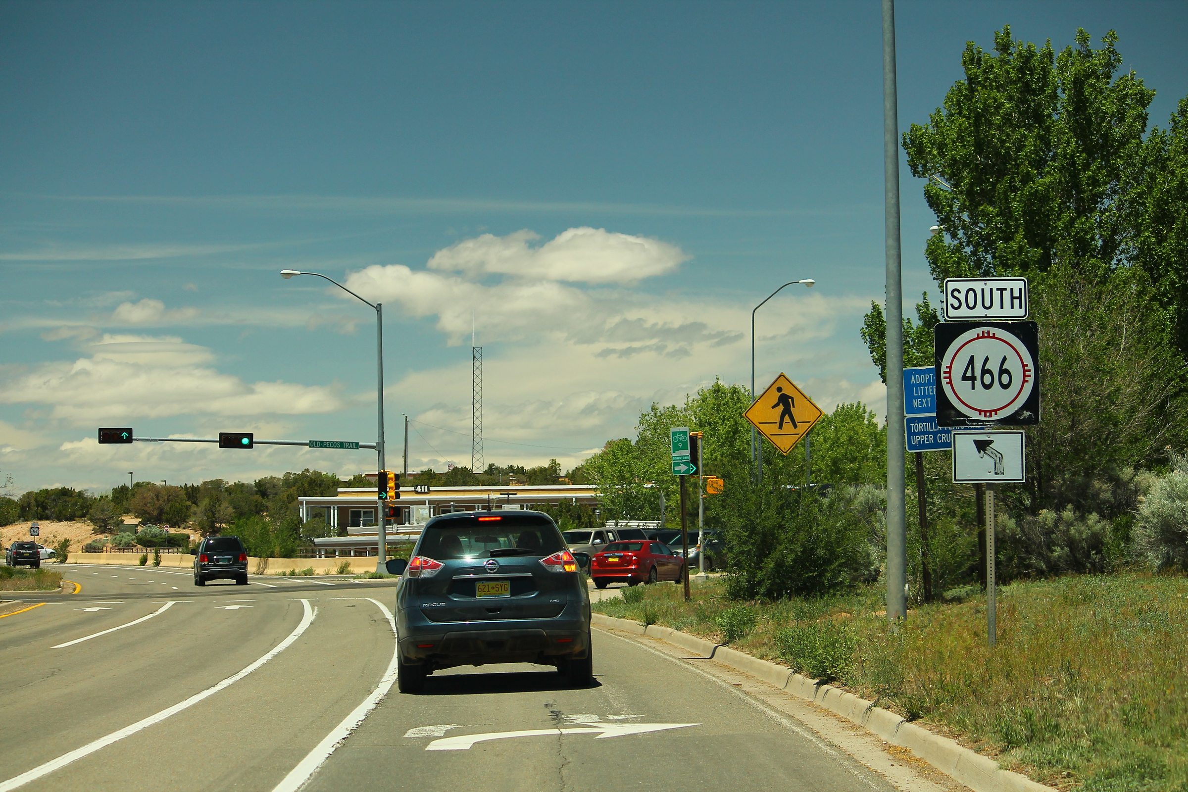 NM466sRoadSign-OldPecosTrailRight